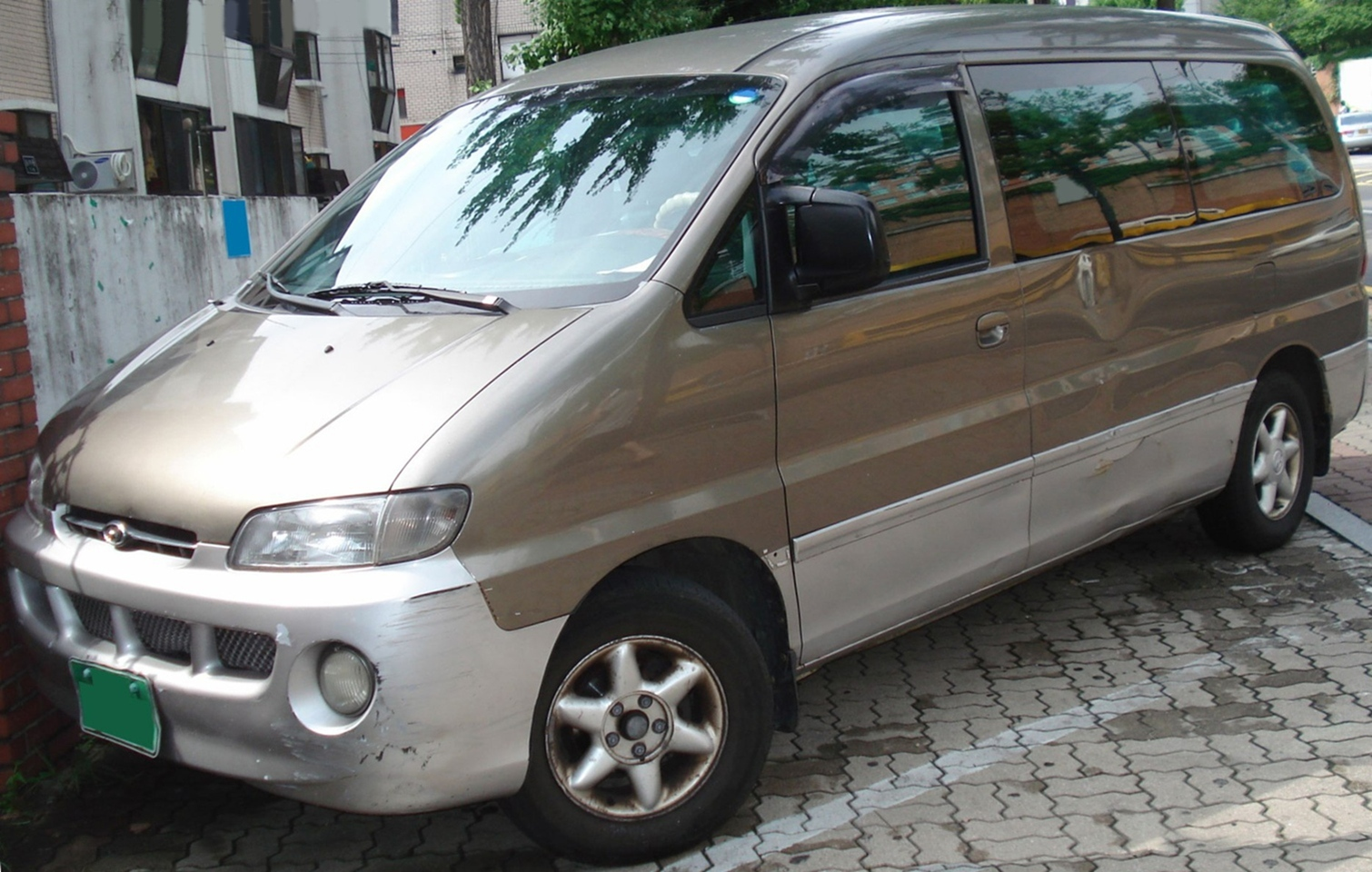 Hyundai Starex